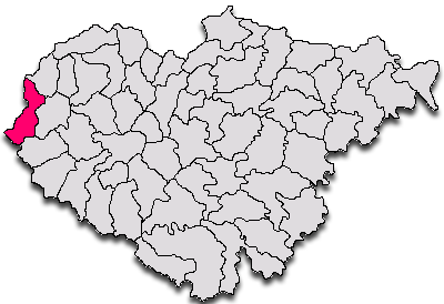 Map Salaj County Romania